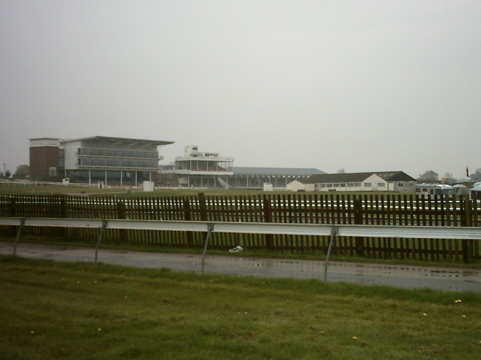 Wetherby Racecourse in 2008